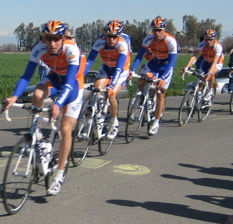 Photo taken during the 2009 Tour of California of Rabobank team members cycling in Kings County in the San Joaquin Valley